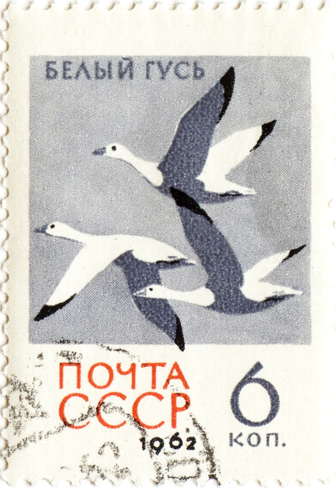 Snow Goose. Post of USSR 1962.